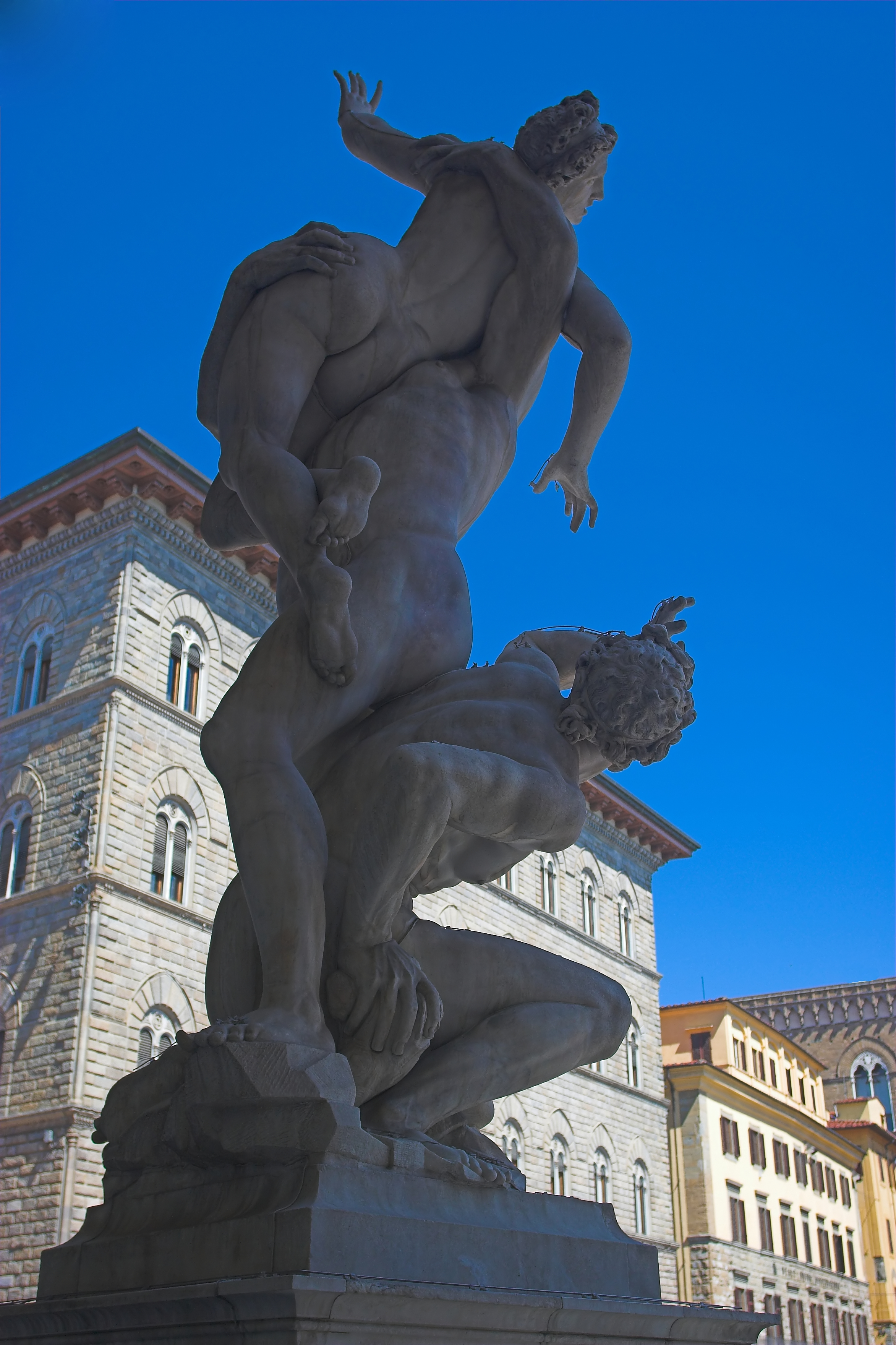 "Rape of the Sabine Women" from alternate view. Photo by Thermos.